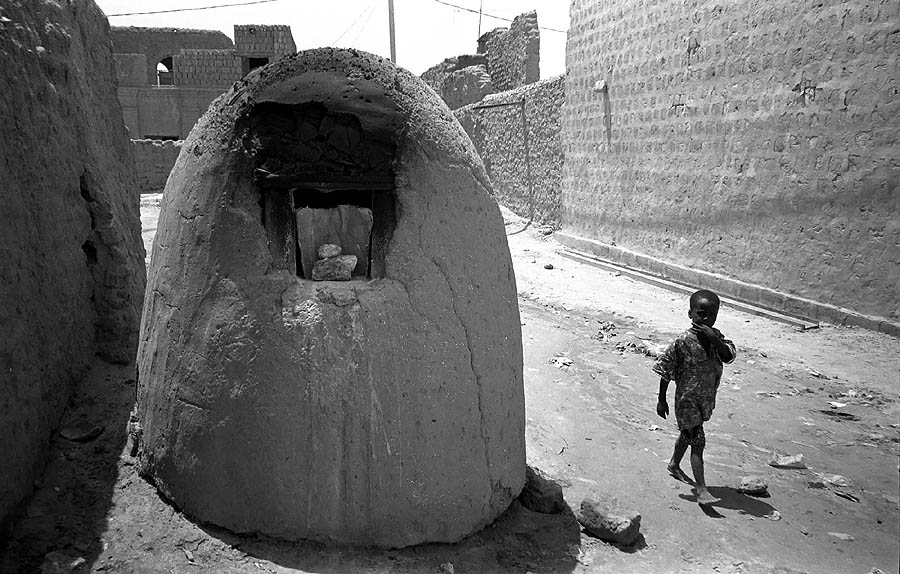 A typical street scene of Timbuktu, Mali, with ubiquitous bread-baking furnaces